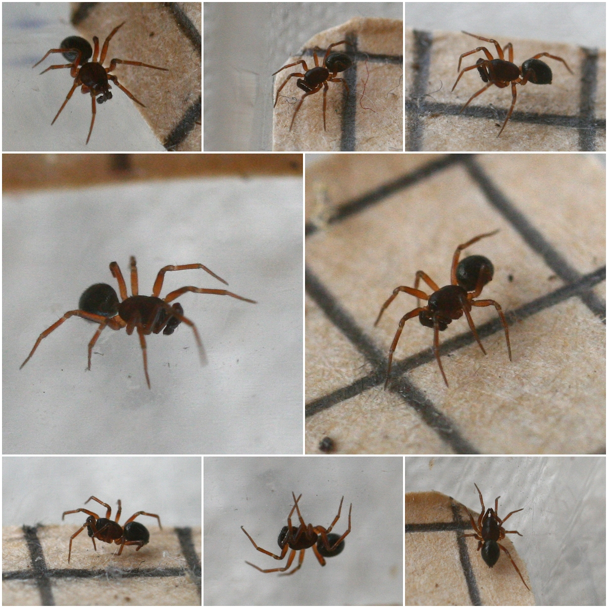 Tiso vagans (Linyphiidae). Id based on palps and fairly certain - palps on dorsal surface with twisted long process visible, and palpal patella & tibia very long. Length 1.8mm. First leg metatarsus with trichobothrium 50% along length. No fourth leg metatarsal trichobothrium. From leaf litter under oak beside woodland ride. Bricket Wood Common, Hertfordshire, England, 29th May 2012.